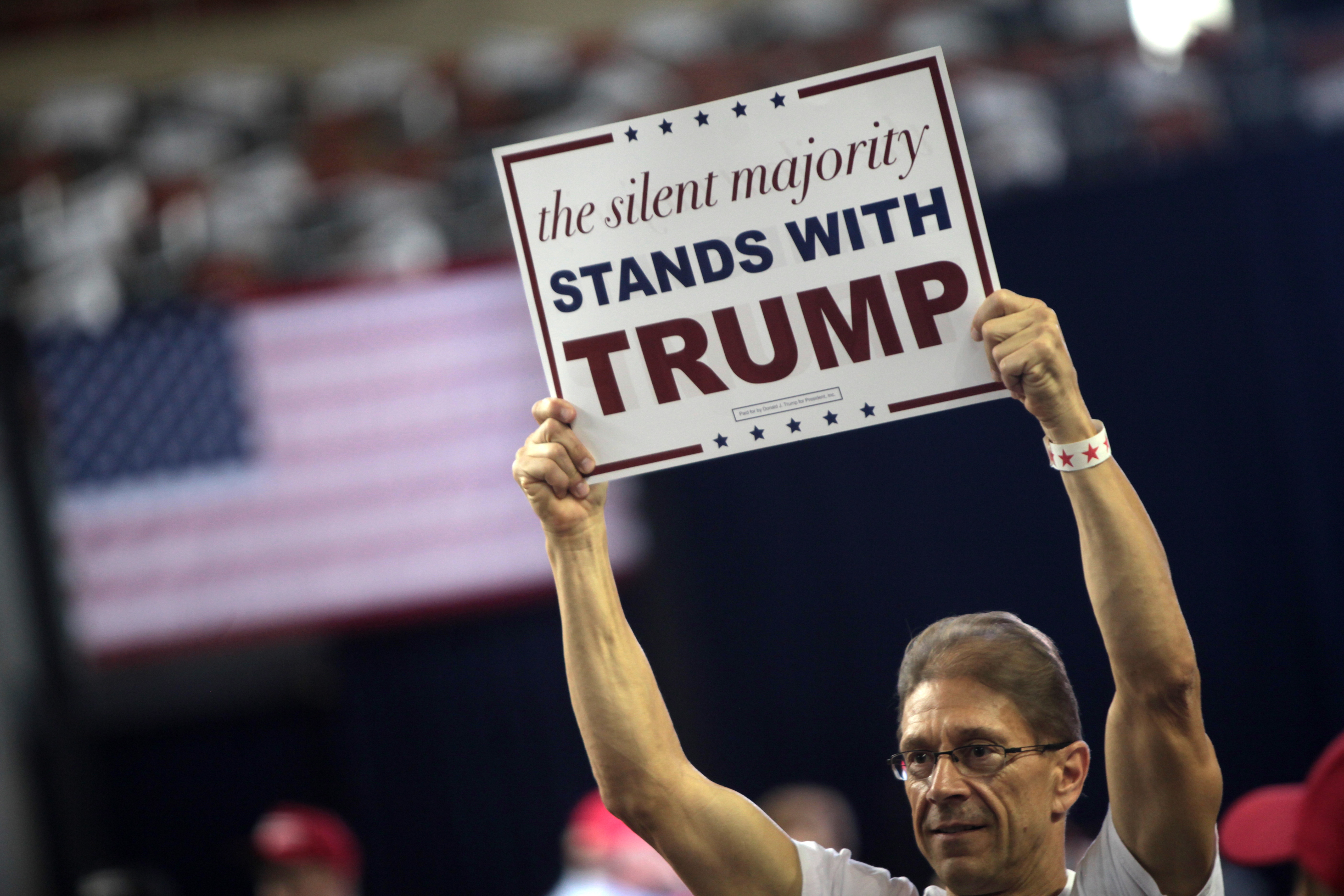 Supporter of Donald Trump at a rally at Veterans Memorial Coliseum at the Arizona State Fairgrounds in Phoenix, Arizona.